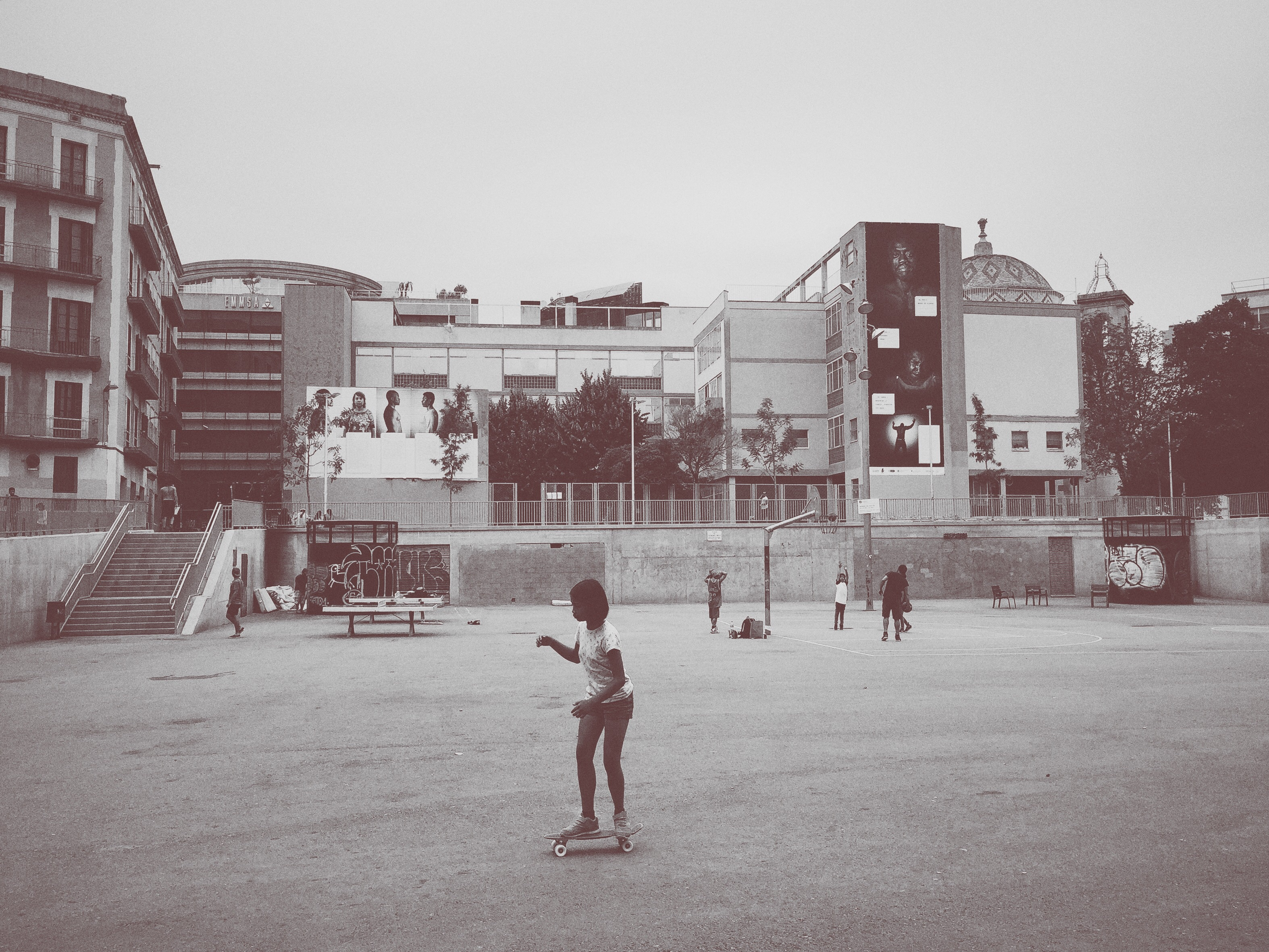 Plaça de Terenci Moix, Barcelona.